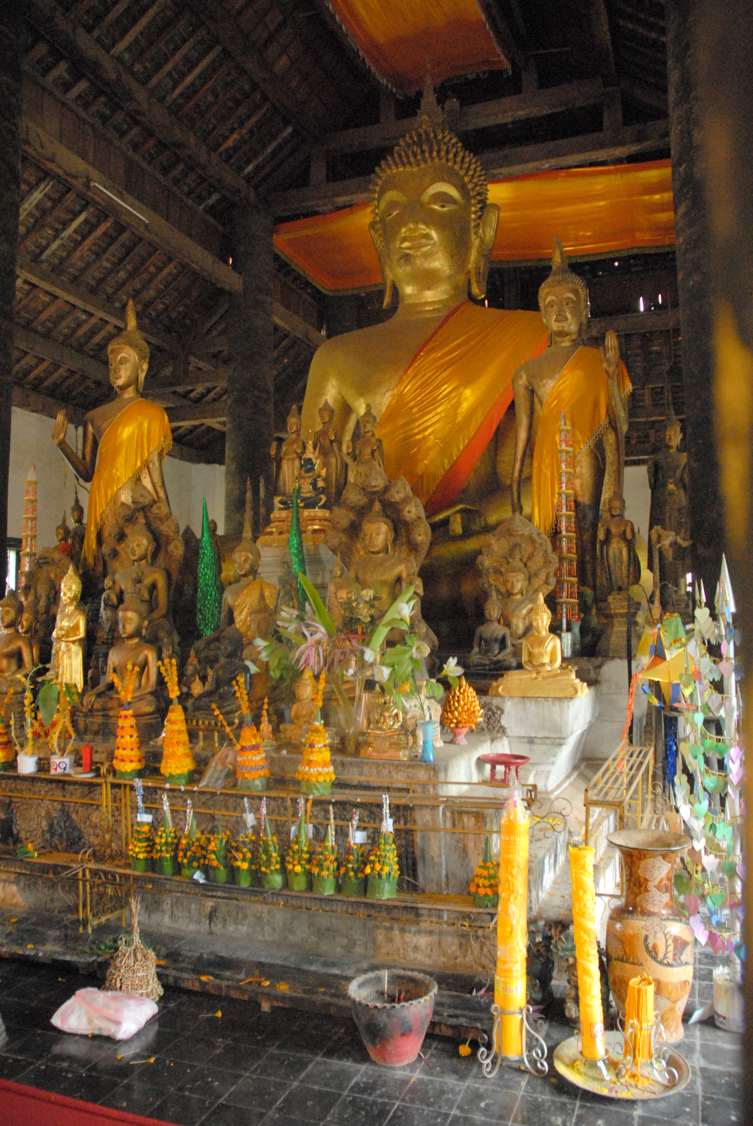 Vat Vixoune in Luang Prabang: Buddha statues